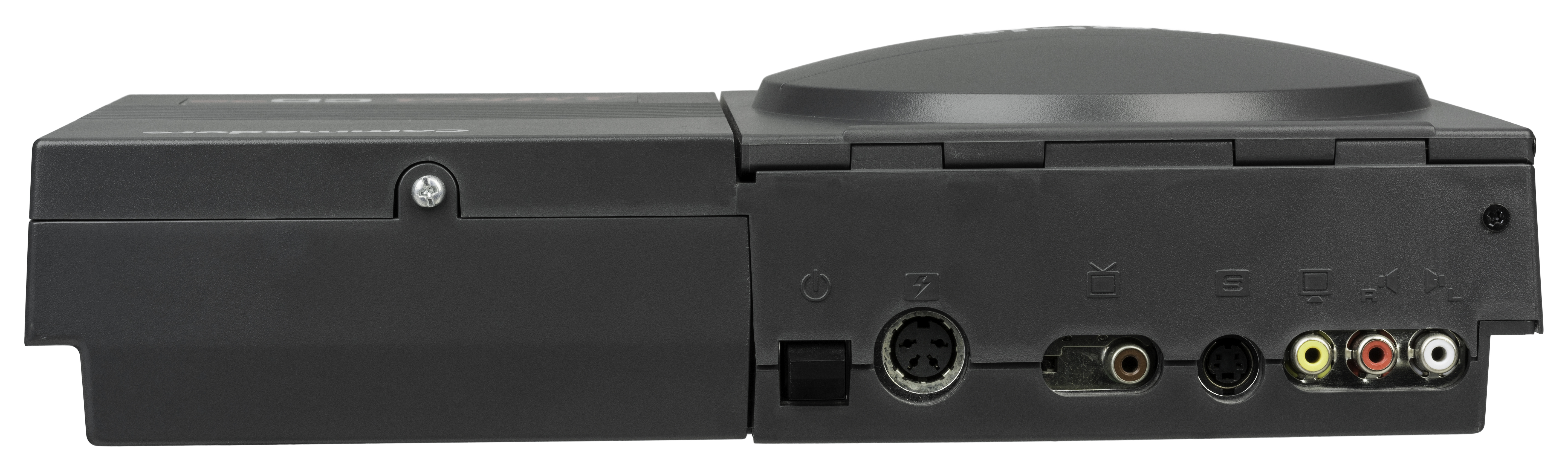 The back of the Amiga CD32, a 32-bit, CD-ROM based video game console from Commodore, showing its various inputs and outputs. It uses a large and somewhat unconventional power supply for a game console, but also comes with a large expansion slot that can be used for add-ons that make it more like a traditional Amiga computer.